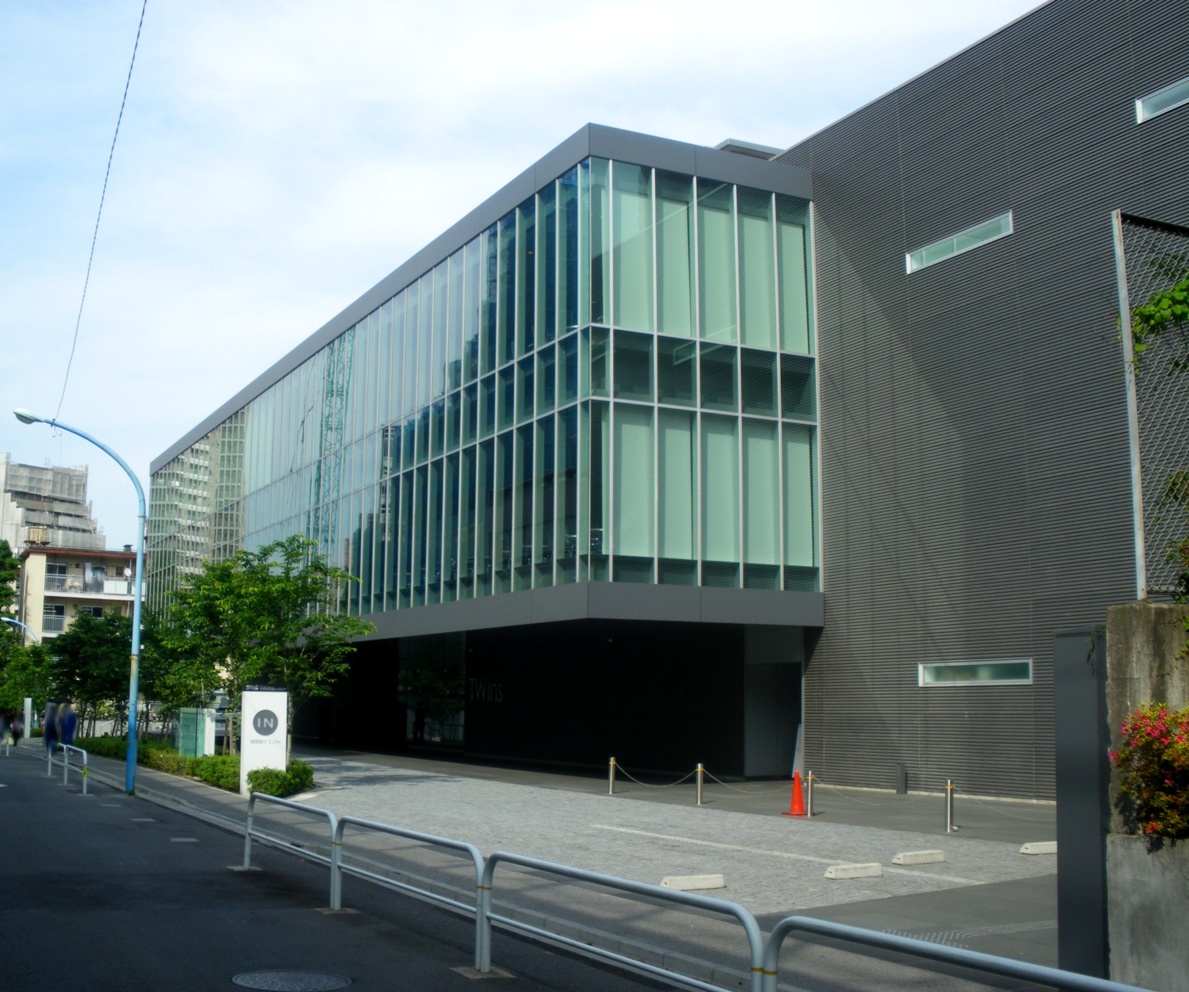 A photo of Tokyo Women's Medical University-Waseda University Joint Institution for Advanced Biomedical Sciences(TWIns),Kawadacho,Shinjuku-ku,Tokyo,Japan.